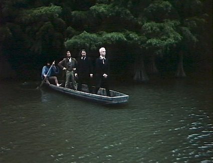 Narcissus on his way to a meeting with a theater director